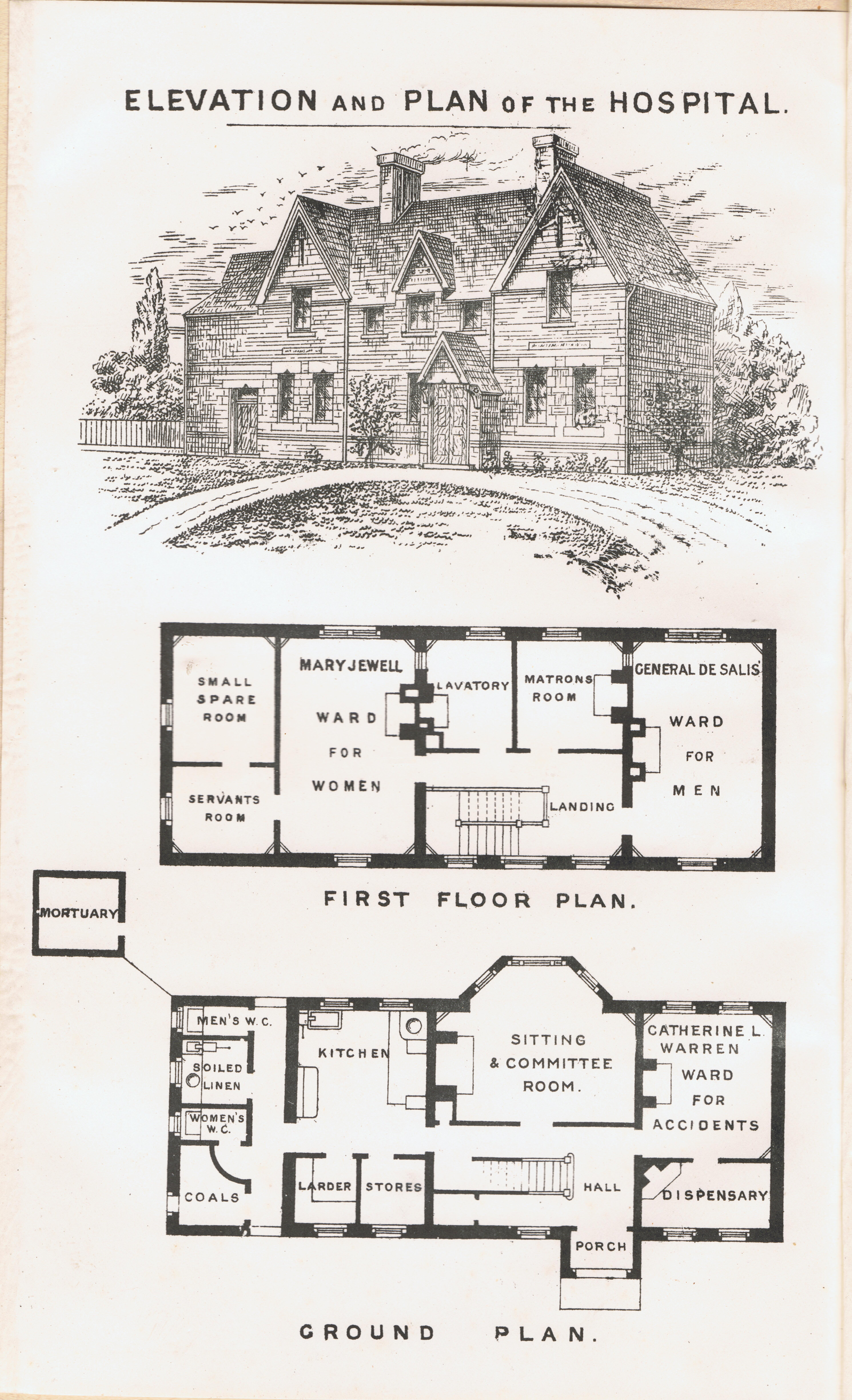 Scan (by me, R. de Salis, Rodolph (talk) 13:18, 4 December 2014 (UTC)) of the Elevation and Plan of Harlington, Harmondsworth and Cranford Cottage Hospital as seen in the Report of 1913, but made 1884 by Mr. C. John Mann. thumbnail|left|Report of the Harlington, Harmondsworth and Cranford Cottage Hospital, June 20th, 1913.